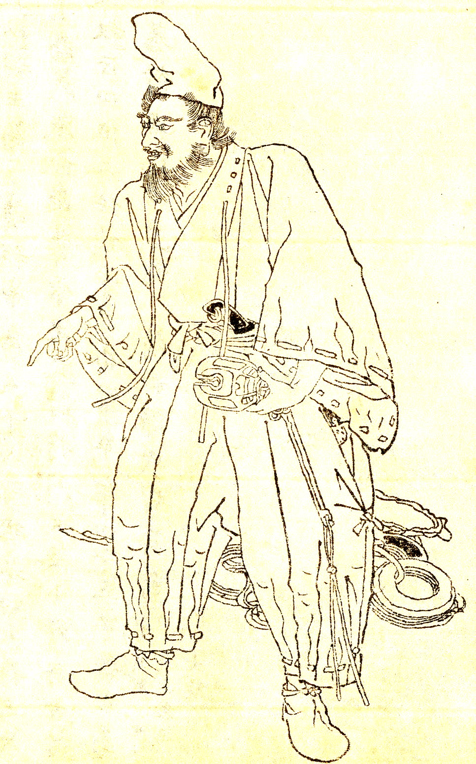 Fujiwara noTadabumi(藤原忠文) was a noble during Japan's Heian period. This picture was drawn by Kikuchi Yosai（菊池容斎） who was a painter in Japan.